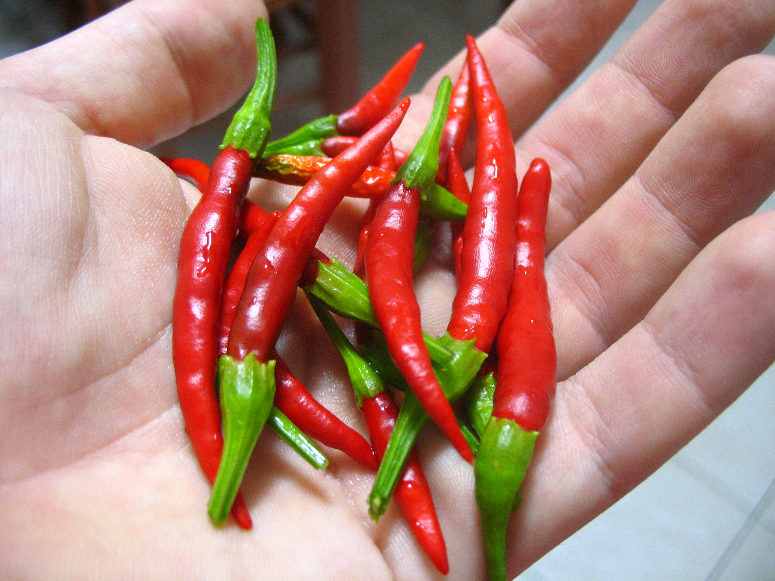 Outdoor grown Chile de arbol peppers grew up in Israel.